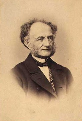 Claus Jacob Emil Hornemann (1810-1890), Danish physician (not to be confused with the Danish composer Emil Horneman)